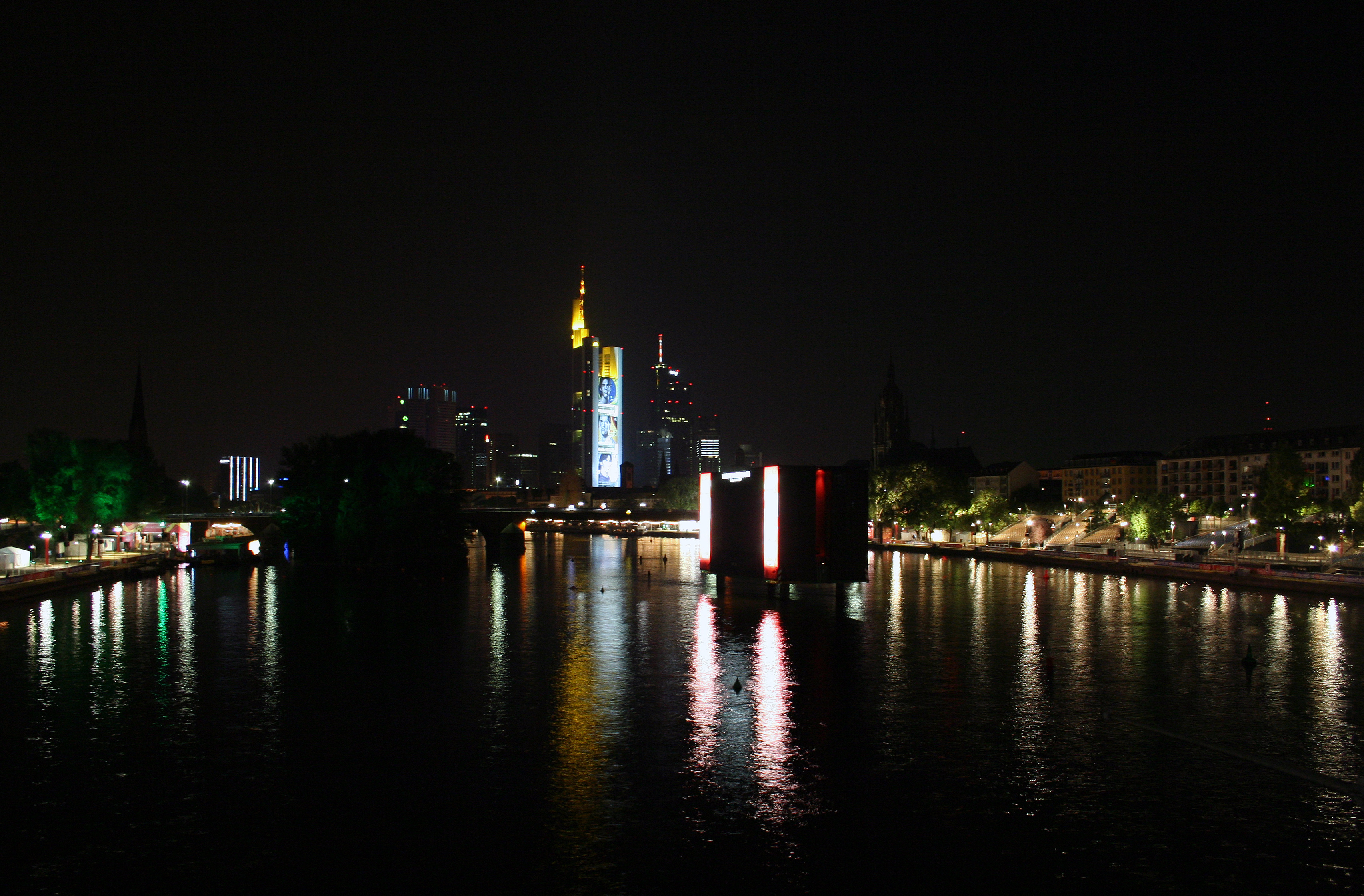 MainArena and the skyline of Frankfurt, viewed from Ignatz-Bubis-Brücke.